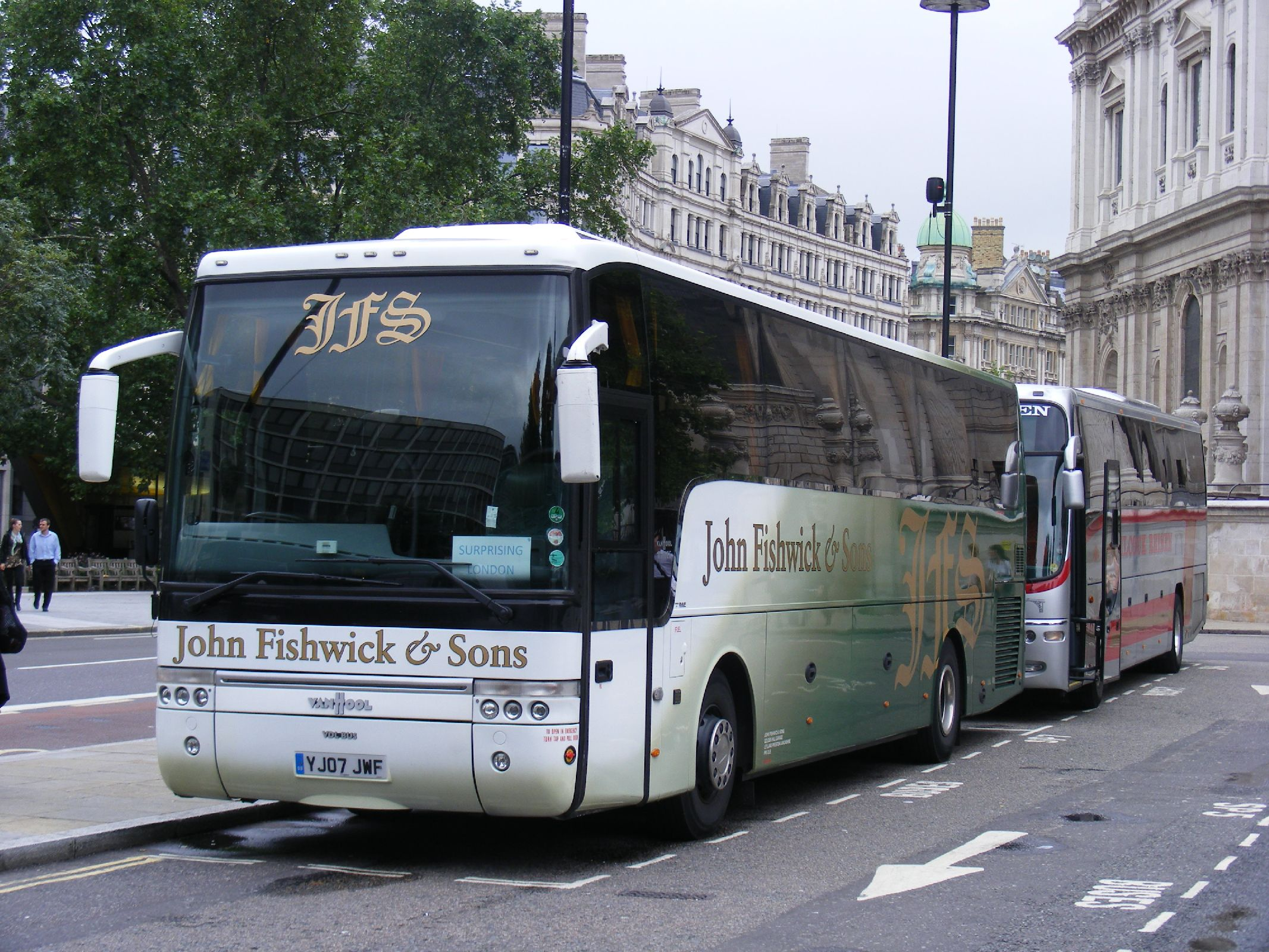 YJ07JWF JW Fishwick of Leyland. Van Hool